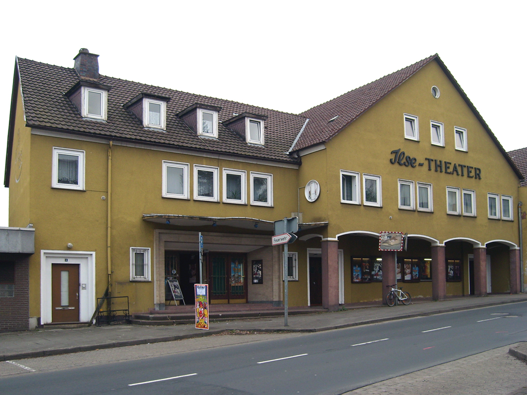 Kino "Ilse-Theater" in Uslar.